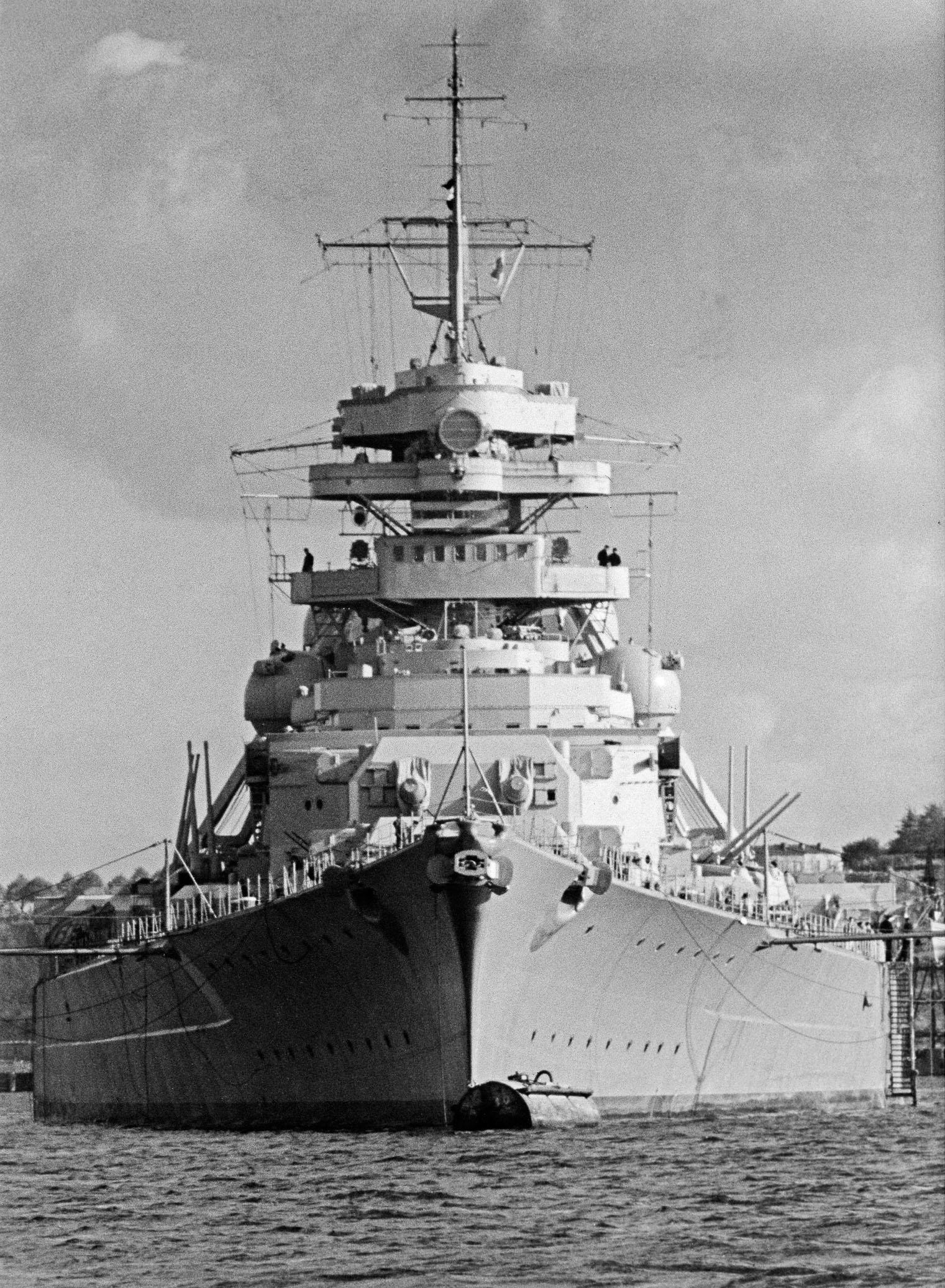 German Battleship Tirpitz